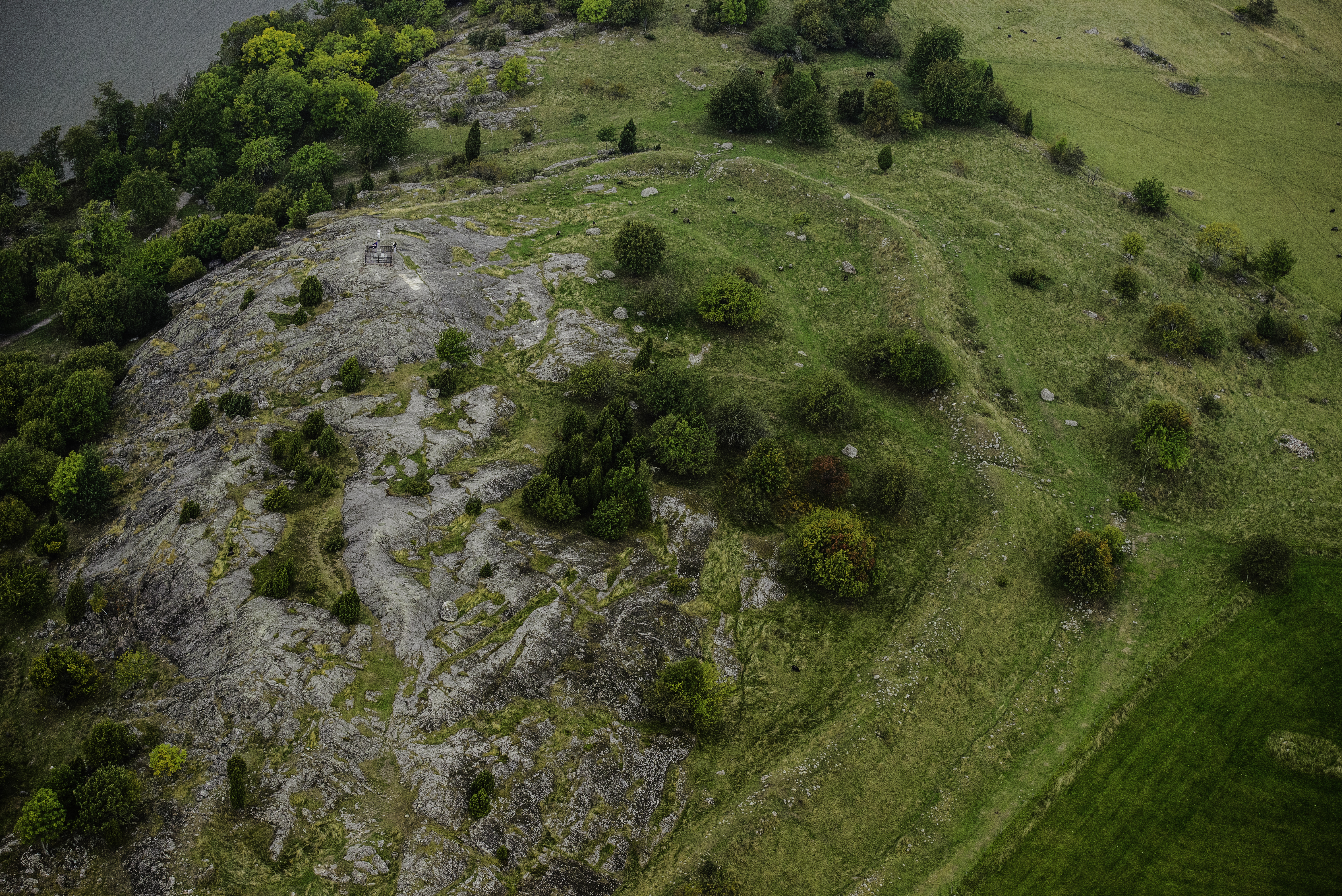 Hill fort in Birka. Part of Birka and Hovgården world heritage site.